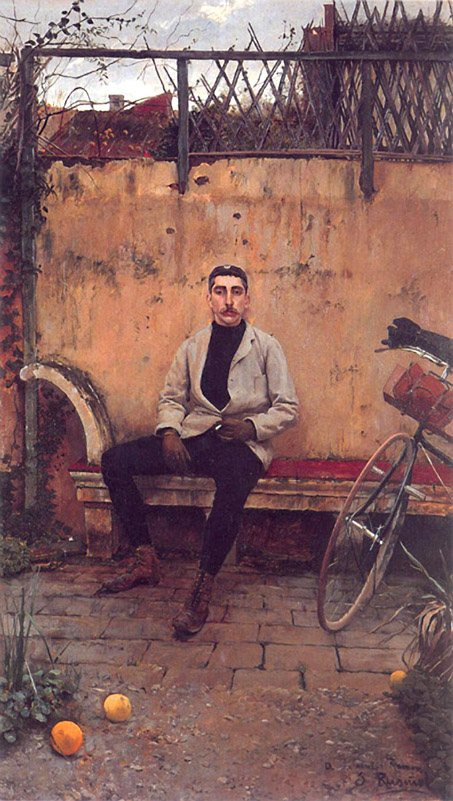 Portrait of Ramon Casas